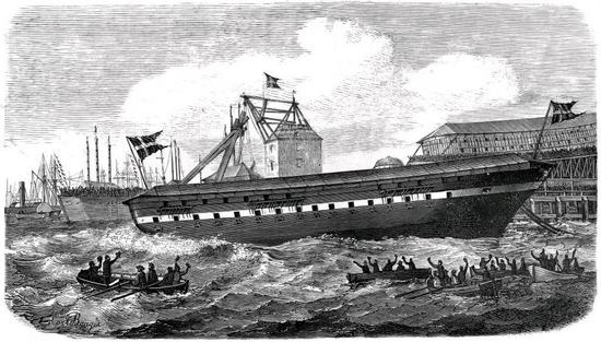 The launching of the naval ship Jylland on 20 November 1860 at Holmen in Copenhagen, Denmark